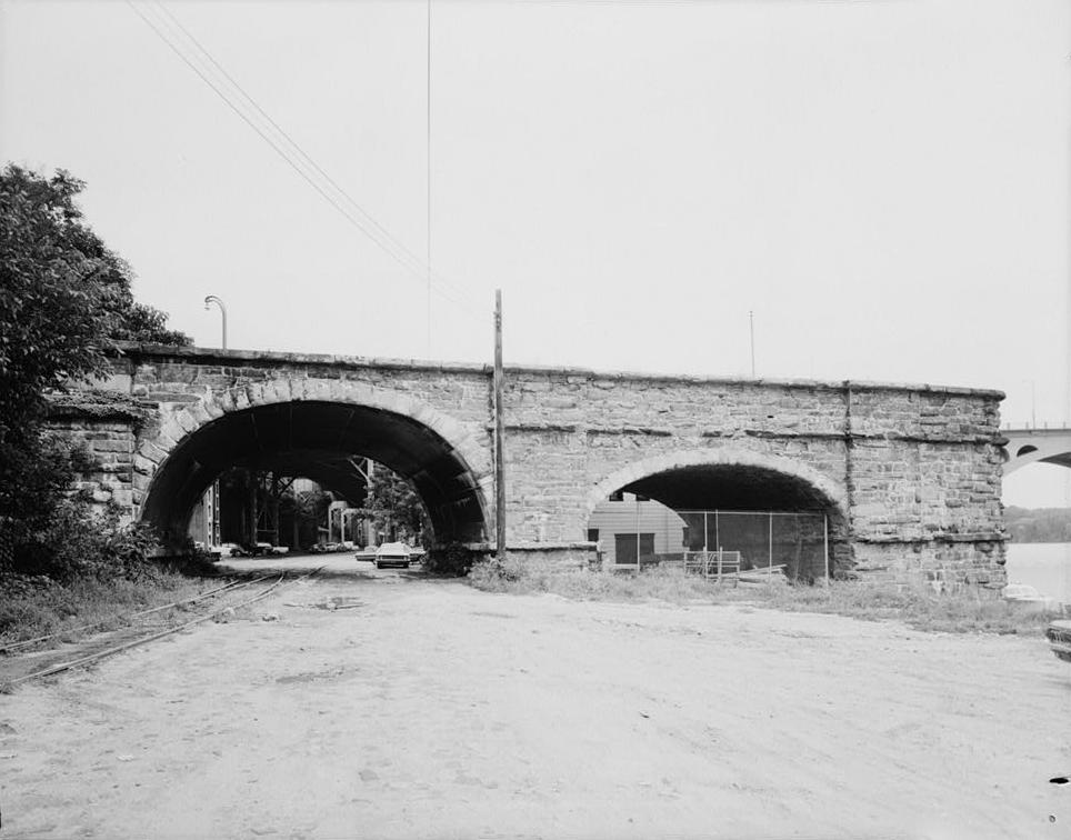 West end of K Street NW, Washington, D.C. in 1967, showing remnant of now-demolished Aqueduct Bridge. The tracks of the Georgetown Branch (B&O Railroad) are seen on the left.